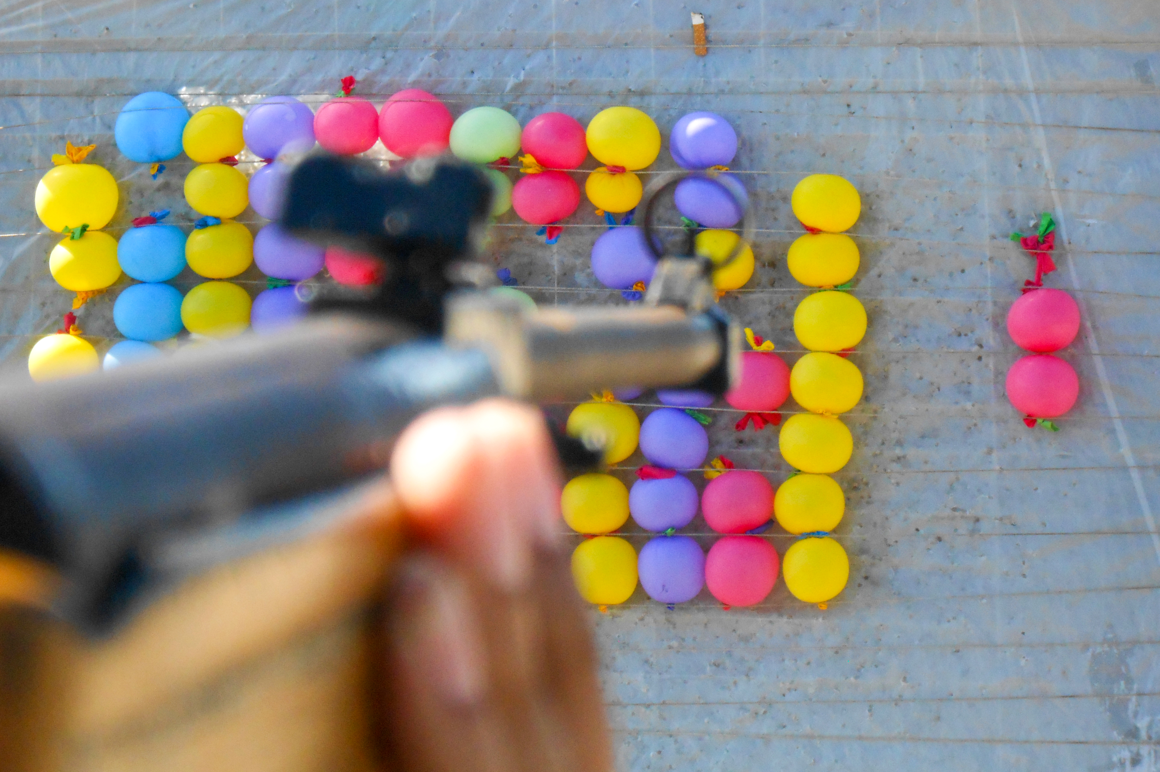 Shooting balloons at Patenga, Chittagong